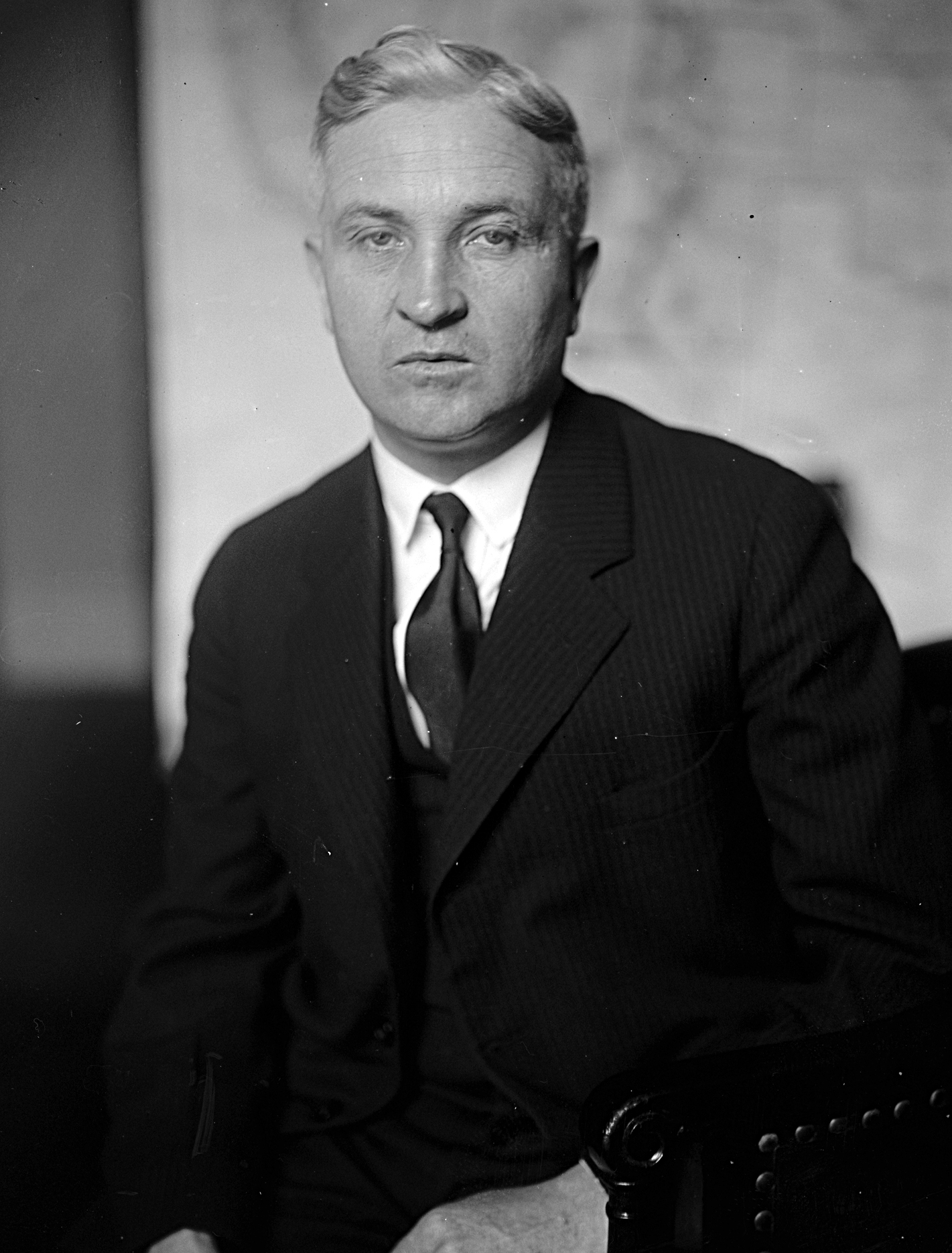 Robert H. Clancy, US Representative from Michigan